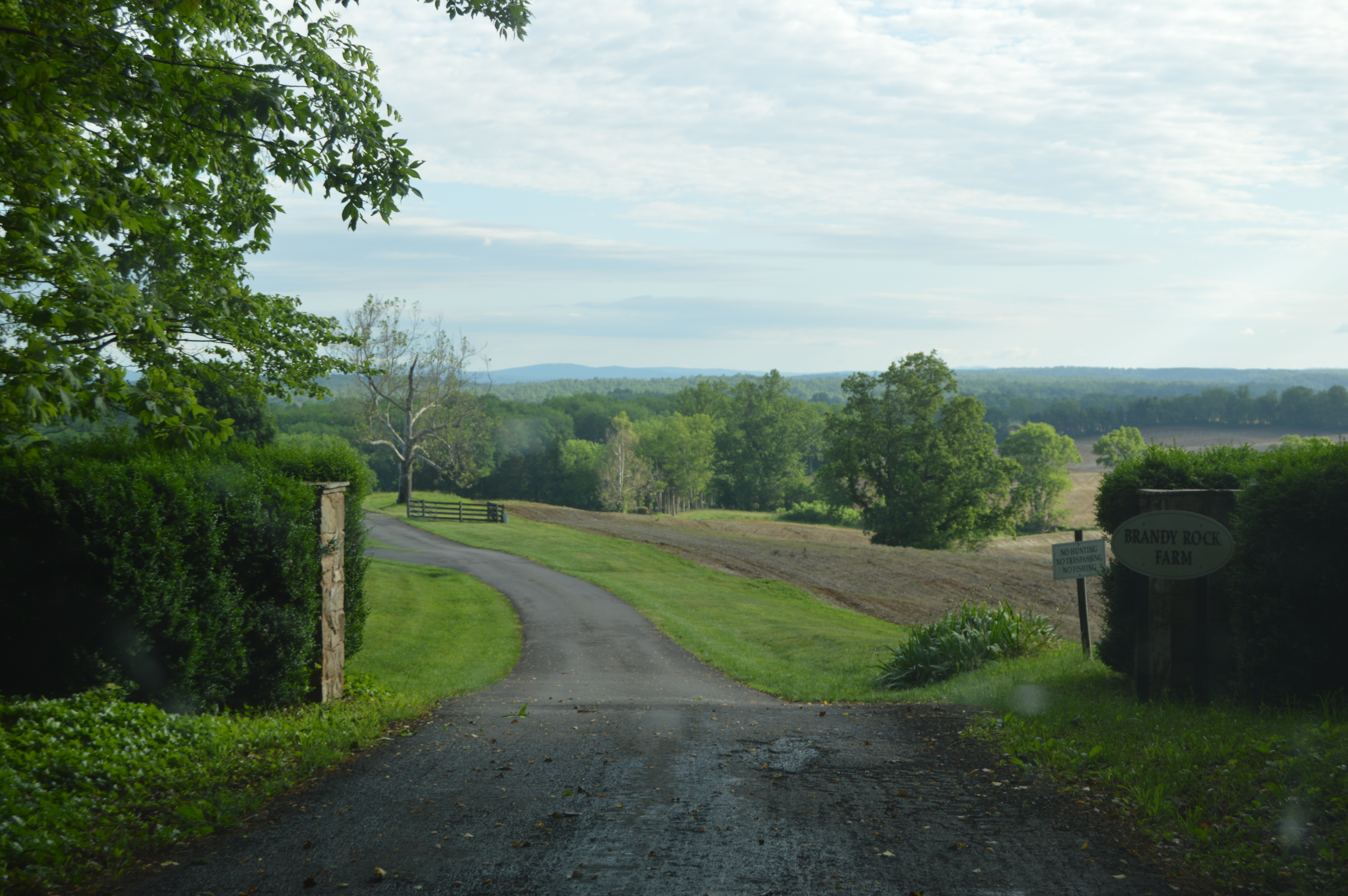 Entrance to the Farley farmstead, located at the end of Farley Road west of Remington in Culpeper County, Virginia, United States. The farmstead is listed on the National Register of Historic Places.